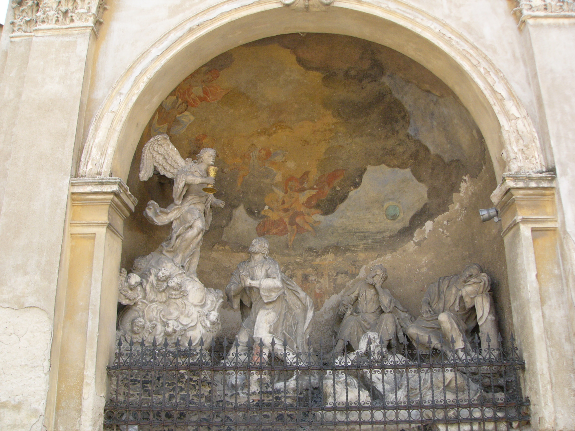 Statues Christ on the Mount of Olives in front of church in Lower Square in Znojmo (Czech Republic).